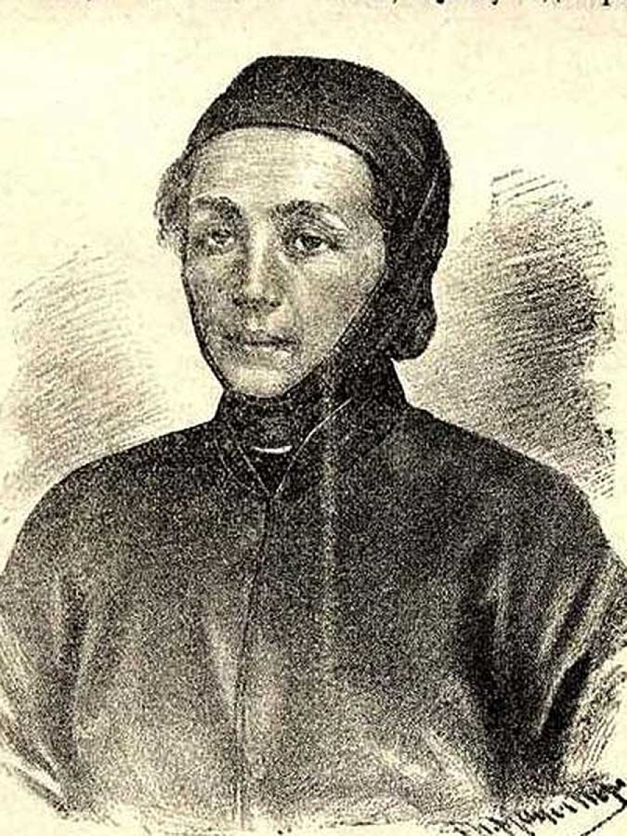 Staka Skenderova (1831 – 26 May 1891) was a Bosnian Serb teacher, social worker, writer and folklorist